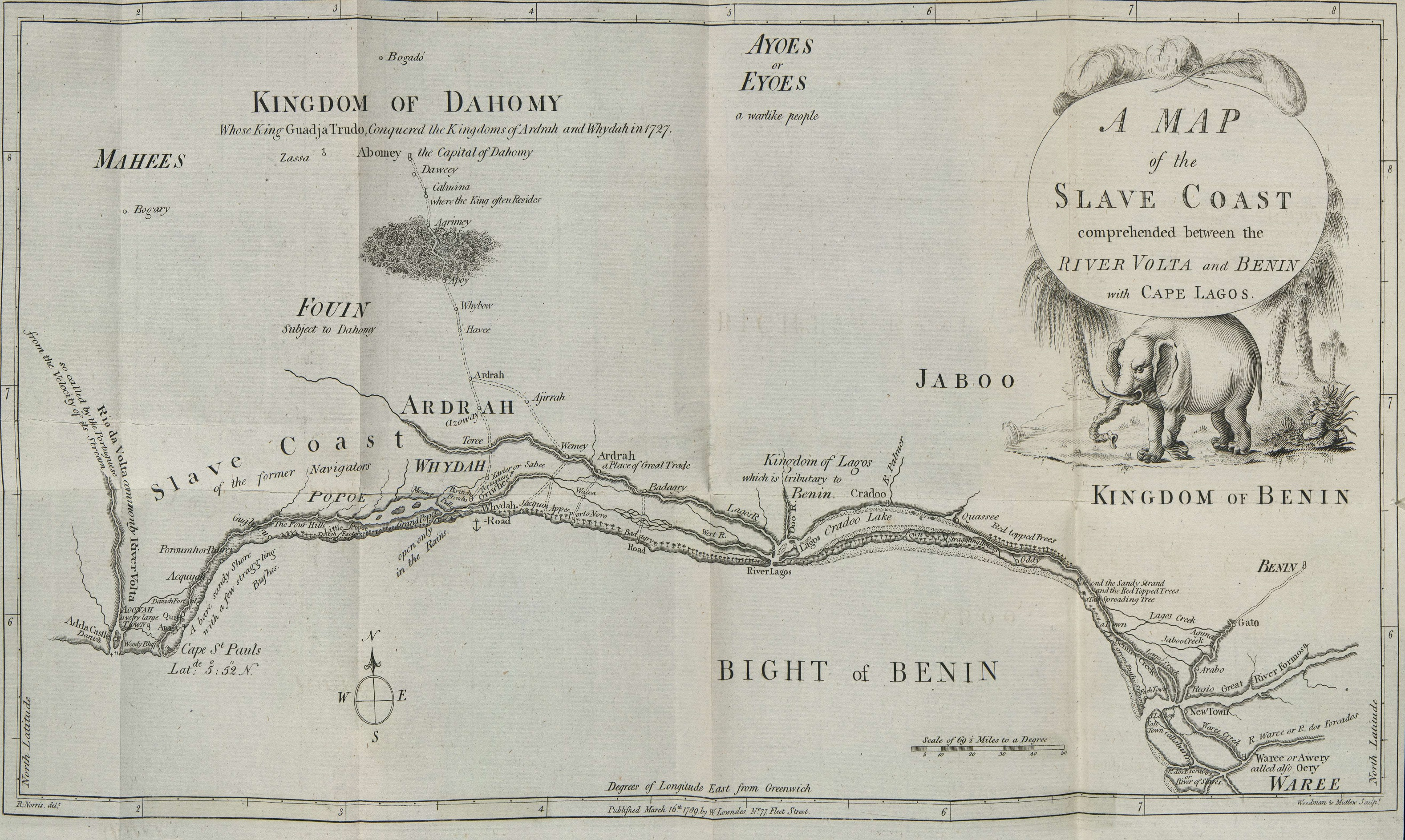 Map of the Slave Coast published in Memoirs of the Reign of Bossa Ahádee, King of Dahomy, an Inland Country of Guiney. To Which Are Added, the Author's Journey to Abomey, the Capital; and a Short Account of the African Slave Trade by British slave trader Robert Norris in 1789.